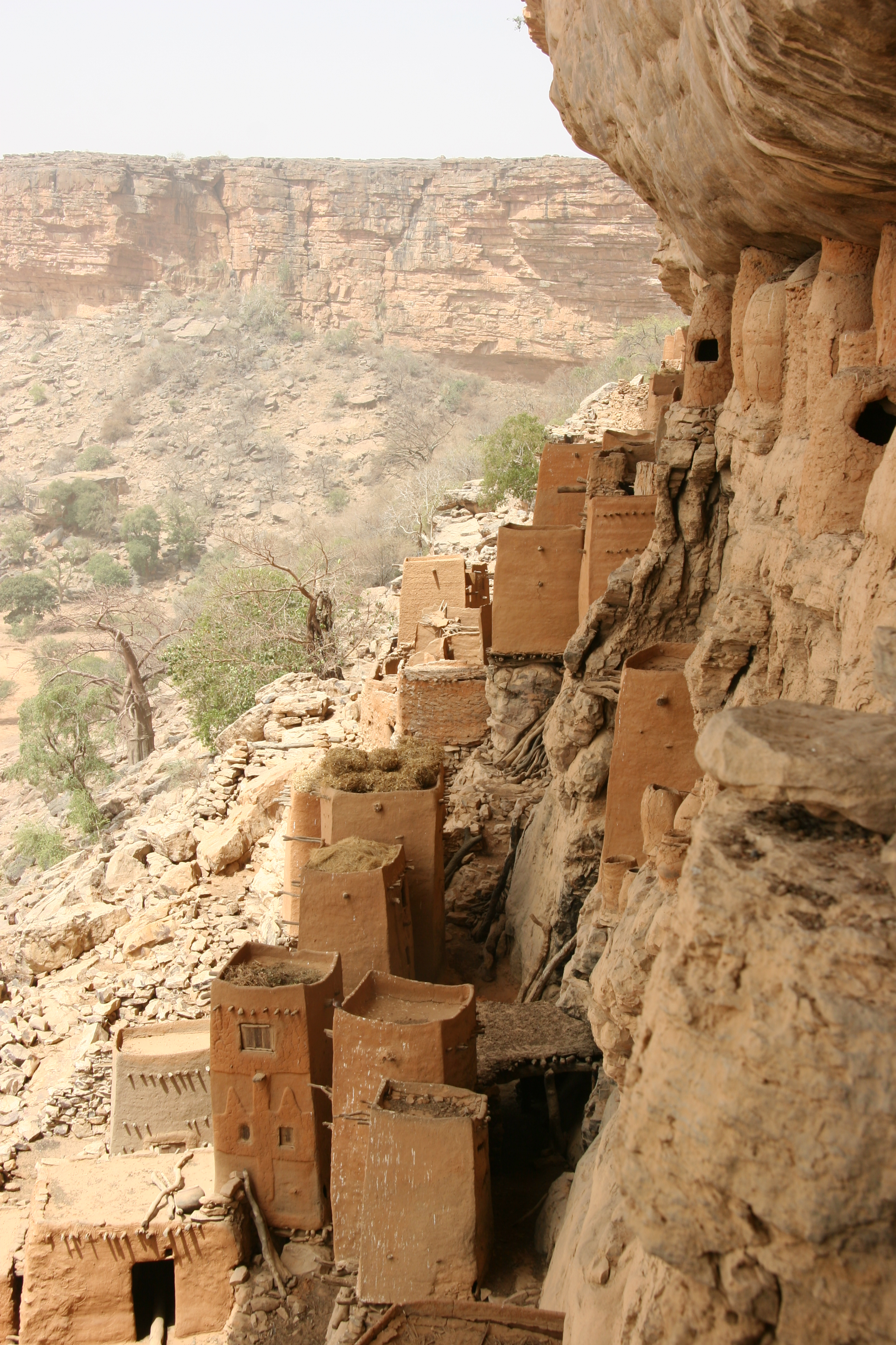 Cliff dwellings in the Bandiagara escarpment — in the Sahel region of Mali.